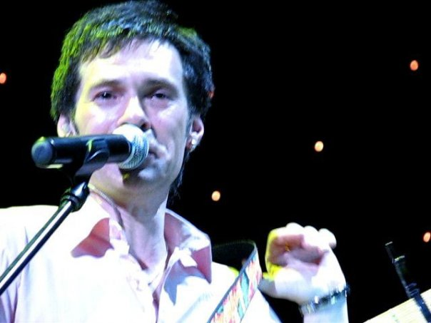 Robert Lenz performing at the Oktyabrskiy Big Concert Hall